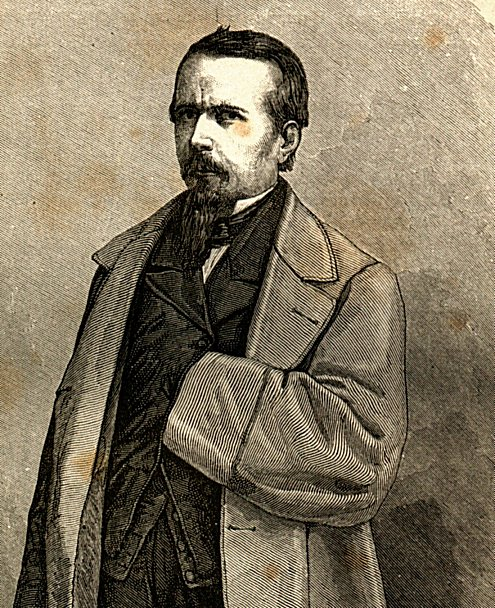 Portrait of Guillaume Lejean.